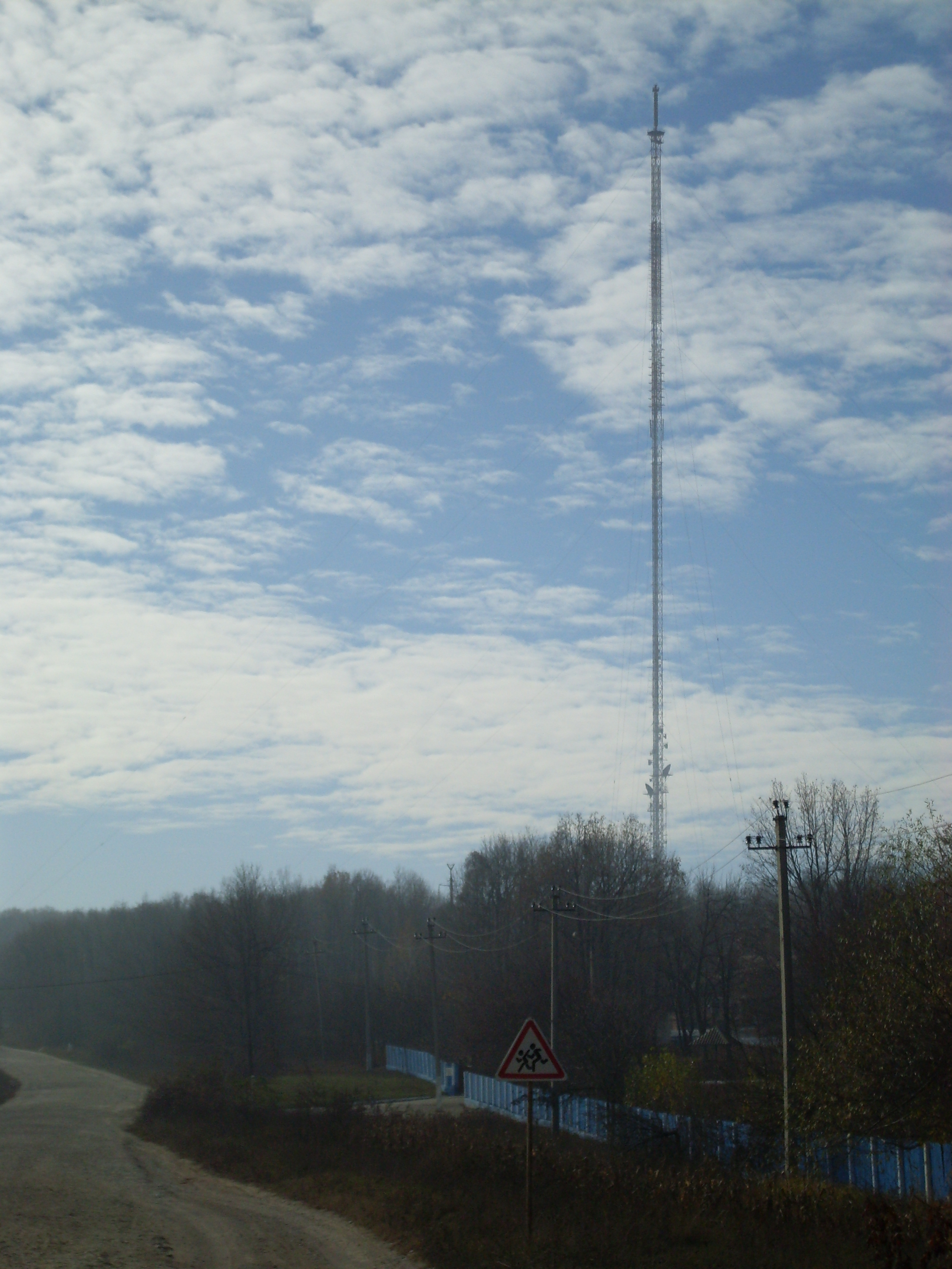 A view of Străşeni TV Mast